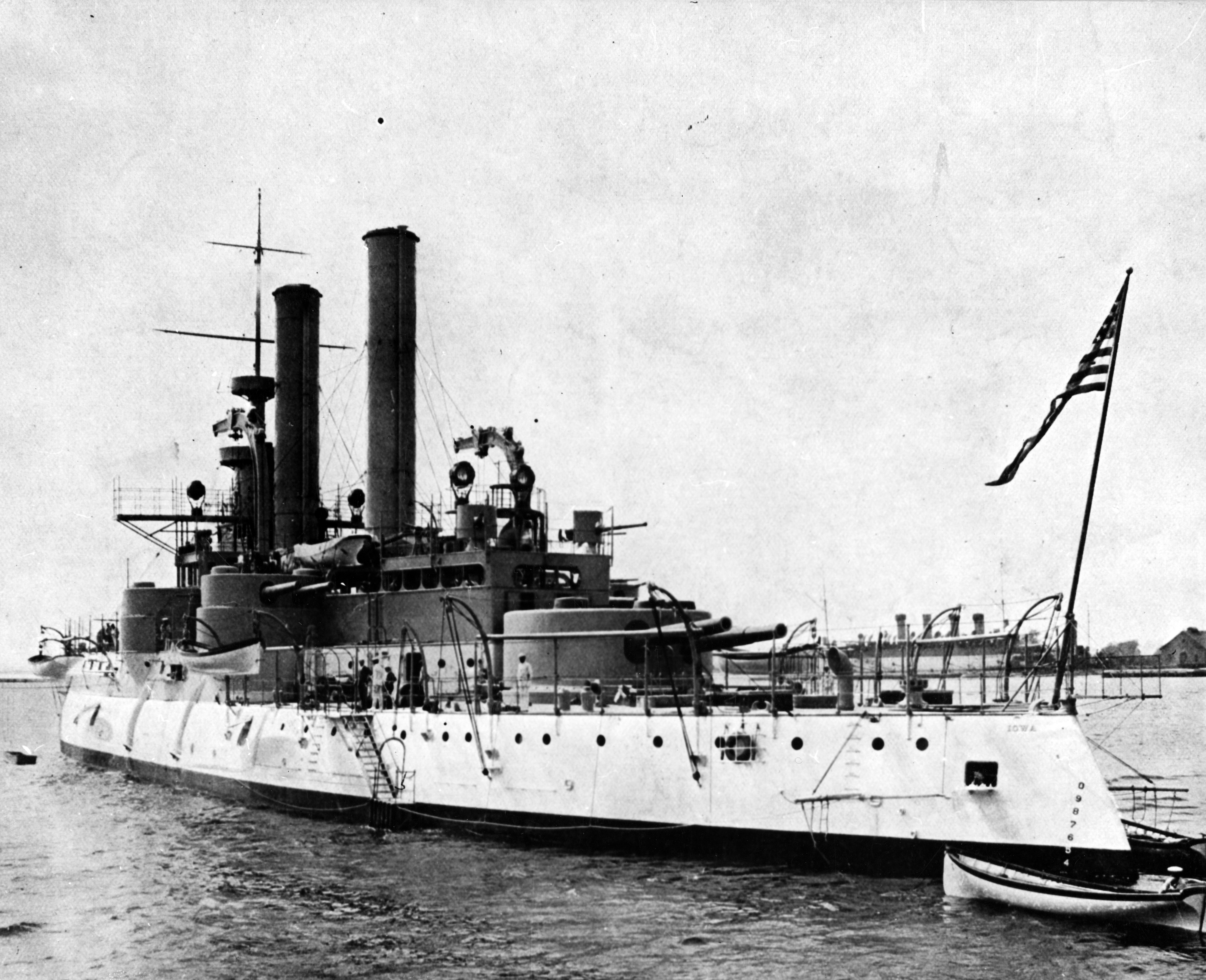 (Battleship # 4) Halftone reproduction of a photograph taken in 1897 or early 1898, with USS Columbia (Cruiser # 12) in the right background. Published in Uncle Sam's Navy, 1898. U.S. Naval History and Heritage Command Photograph.